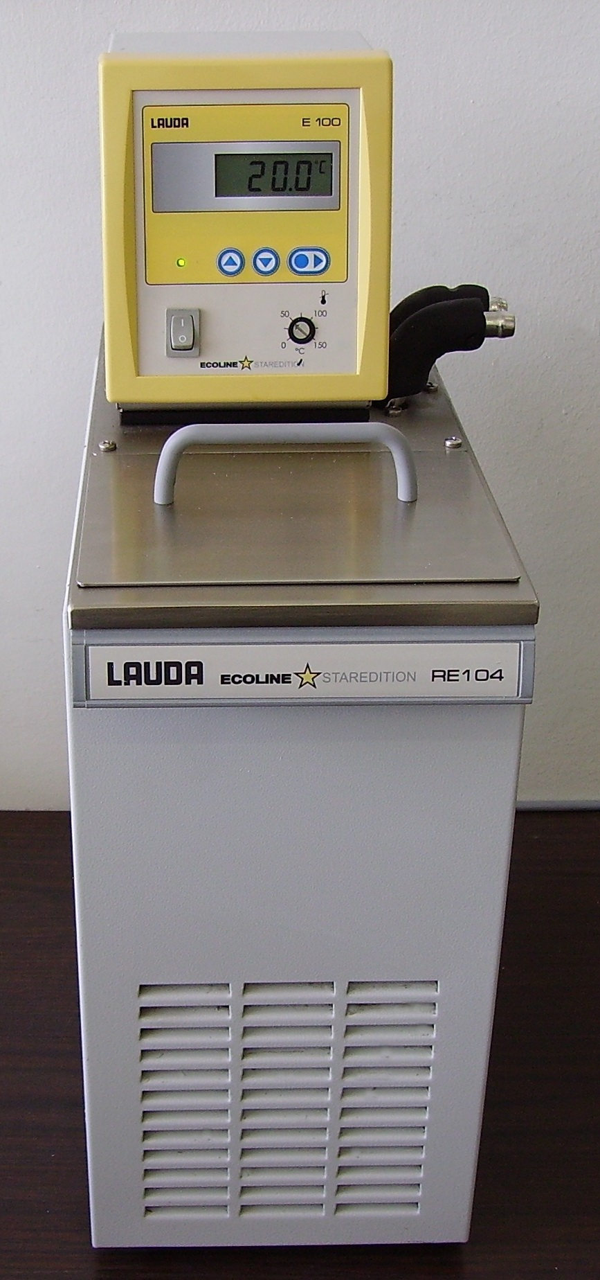 Heated bath (Lauda RE104) used in a laboratory; temperature range: -10 to +150 °C; capacity: 4.5 L; with external circulation; stainless steel tank; power: 1.7 kW. LCD screen displays “20 °C”.